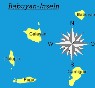 A map of the 11 Babuyan Islands.